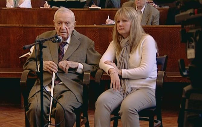 A still frame of Sándor Képíró from the criminal trial of him in the film "The Last Nazi Hunter".